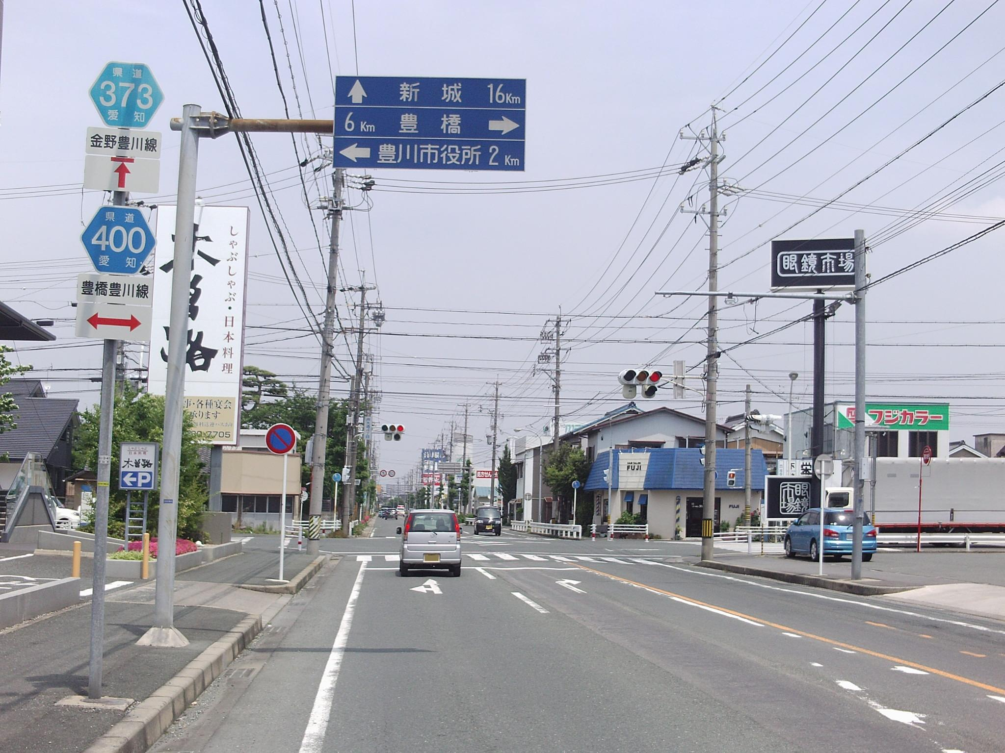 Aichi prefectural road No.373 in Minamiodori 4-chome, Toyokawa, Aichi.